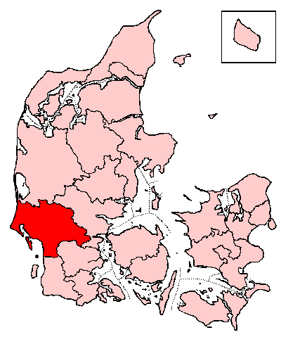 Map of Ribe County 1793-1970